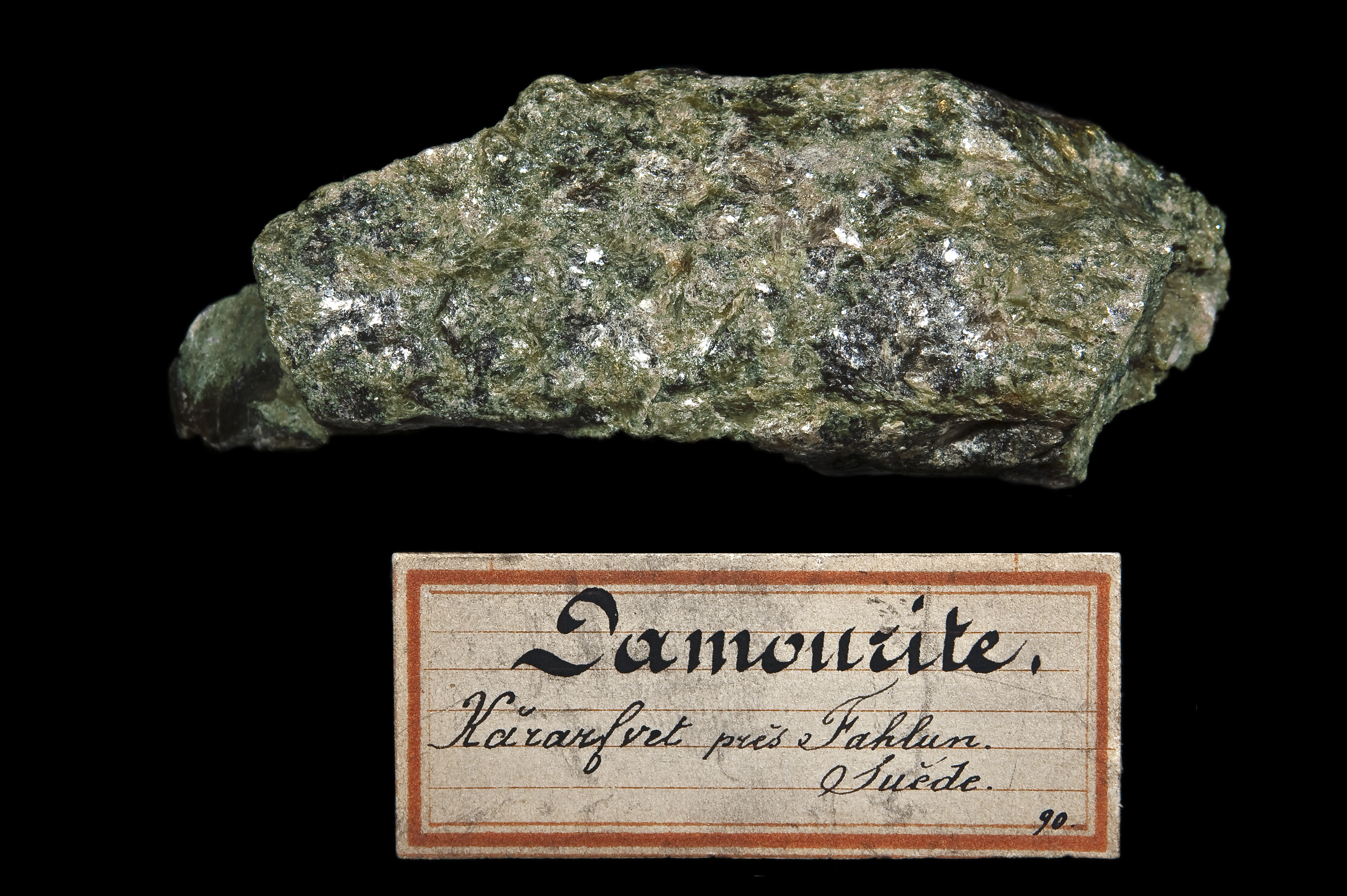 Damourite (Var. of Muscovite) - Kårarvet (Kararfvet; Korarfvet), Falun, Dalarna, Sweden - (8cm)